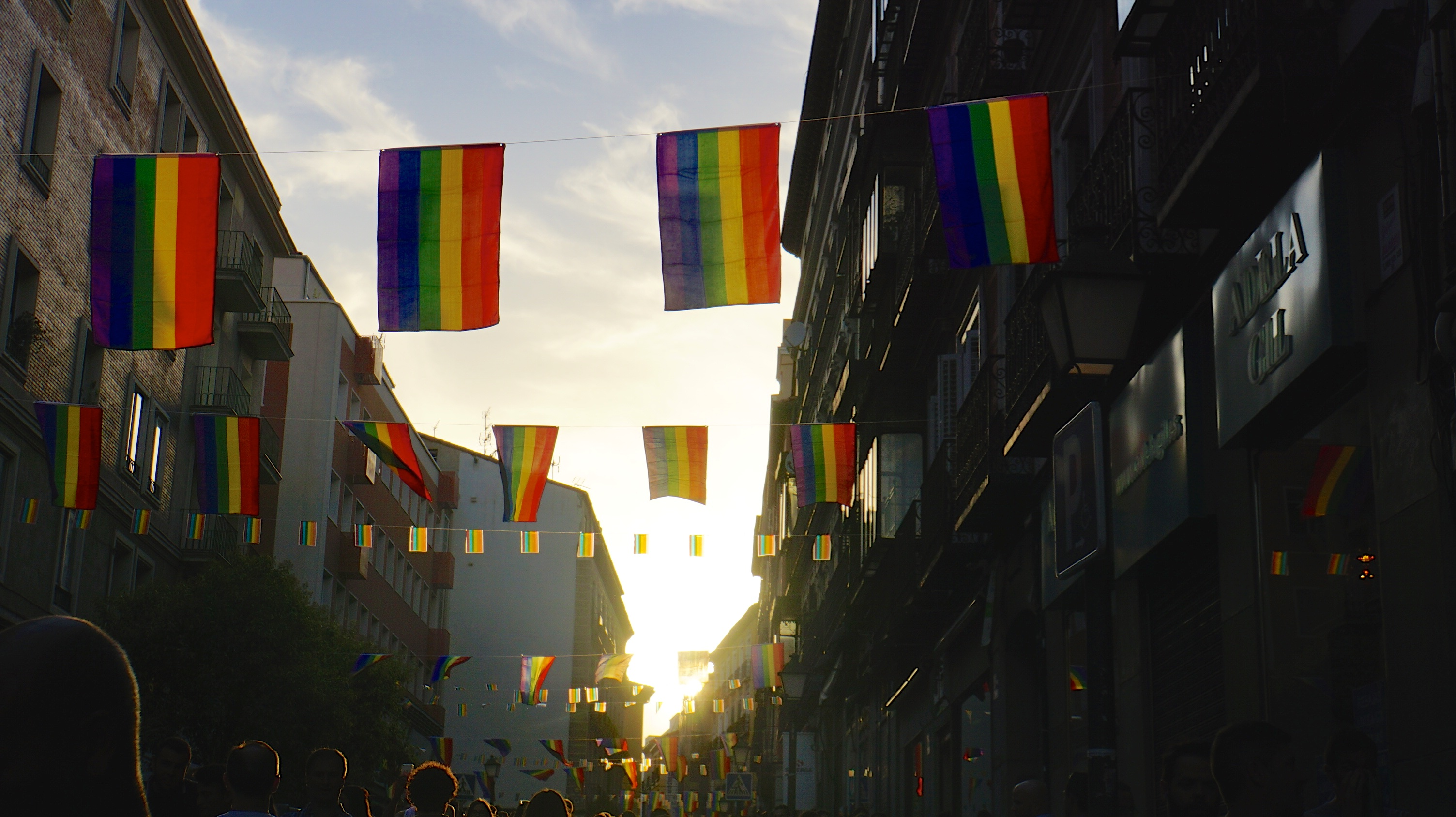 2015.07.01 Madrid Orgullo - LGBTQ Pride